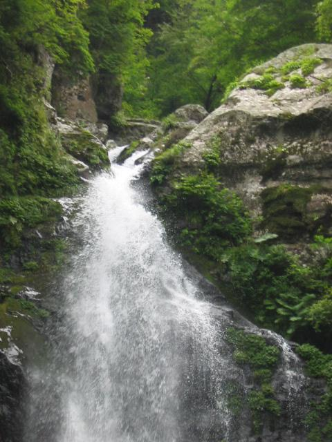 Mato no Taki, a waterfall in south Niihama, Japan. I took this photo in 2004.